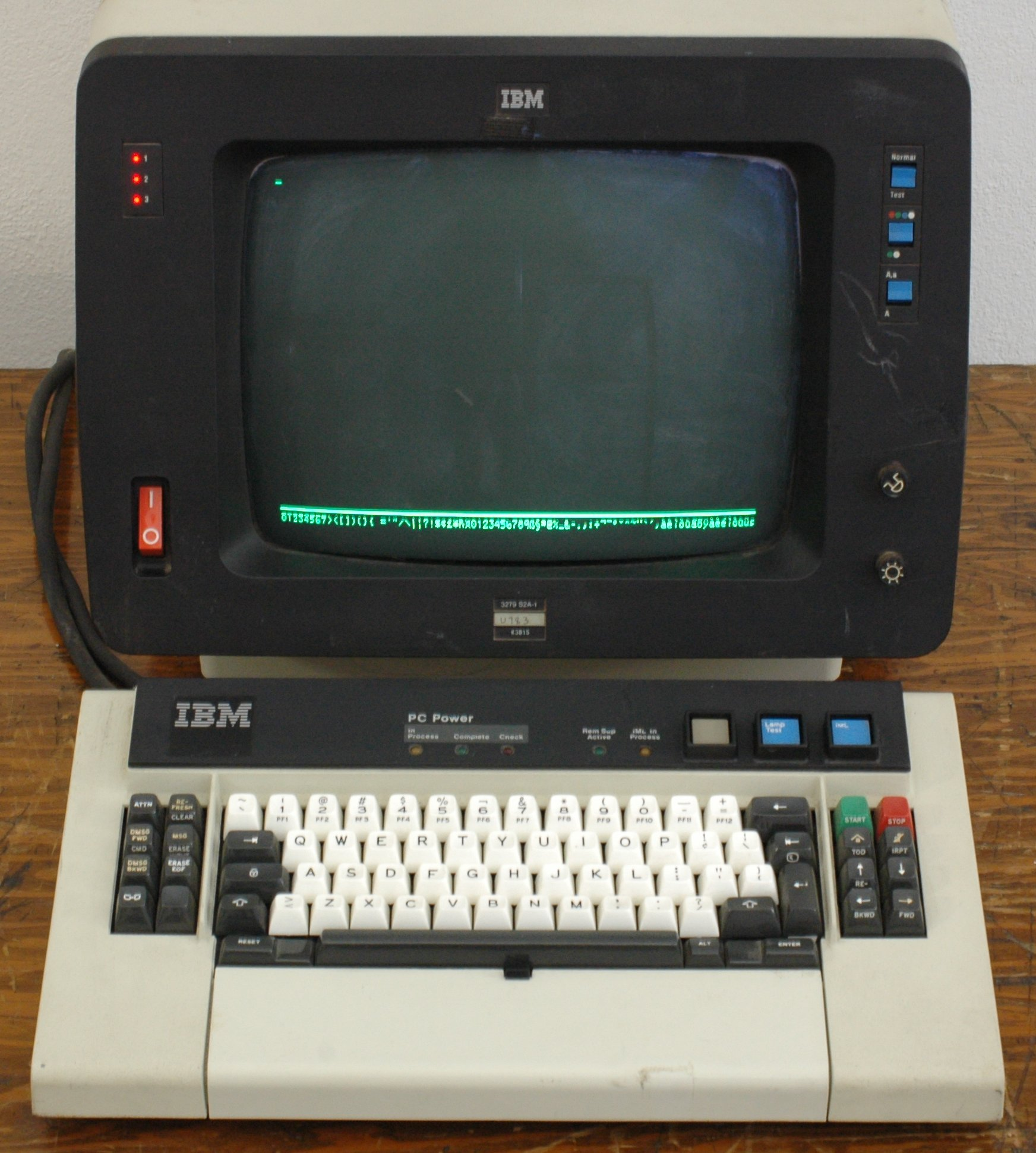 IBM 3279 block mode terminal, with console-style keyboard. From the collection of the RCS.